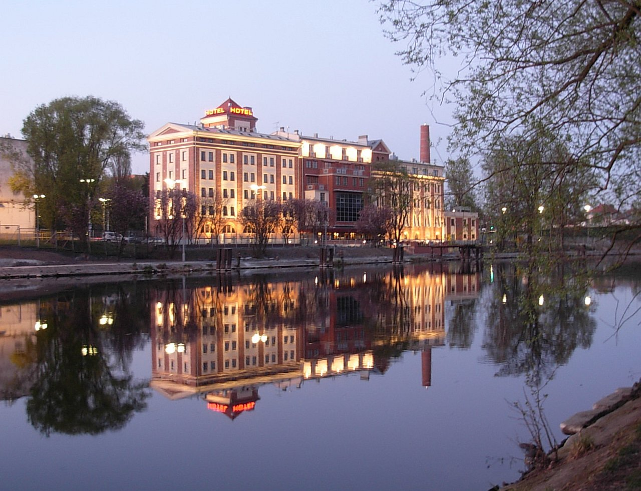 Młyny Kentzera w Bydgoszczy